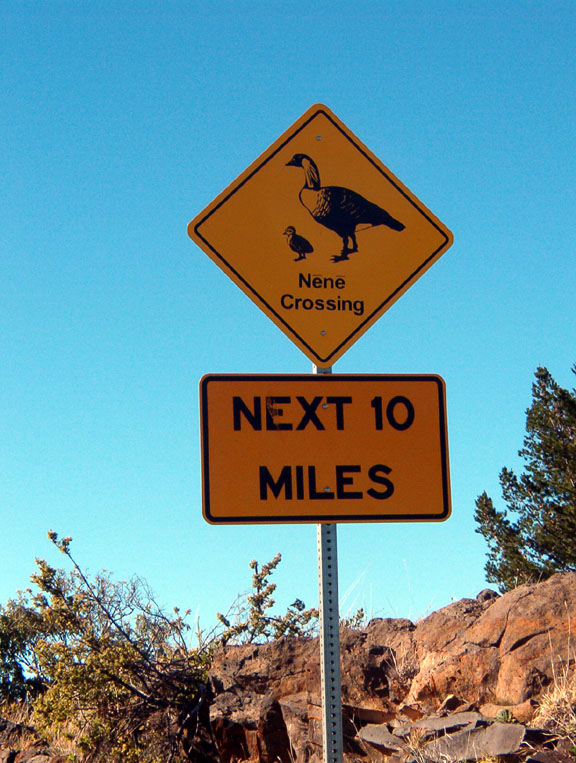 Nene crossing, Hawai'i.